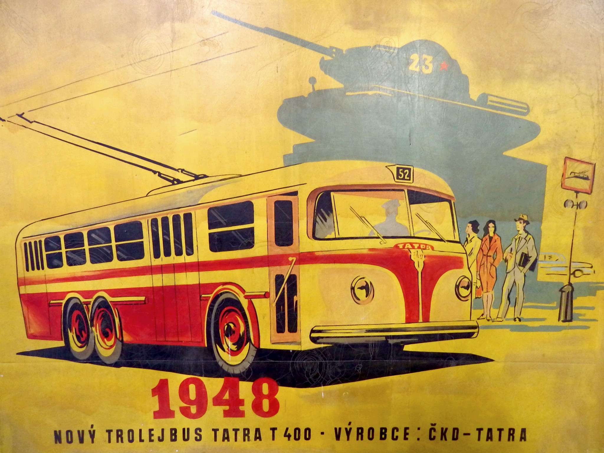 Outline of the Prague Monument to Soviet Tank Crews on a 1948 poster advertising the Tatra 400 trolleybus